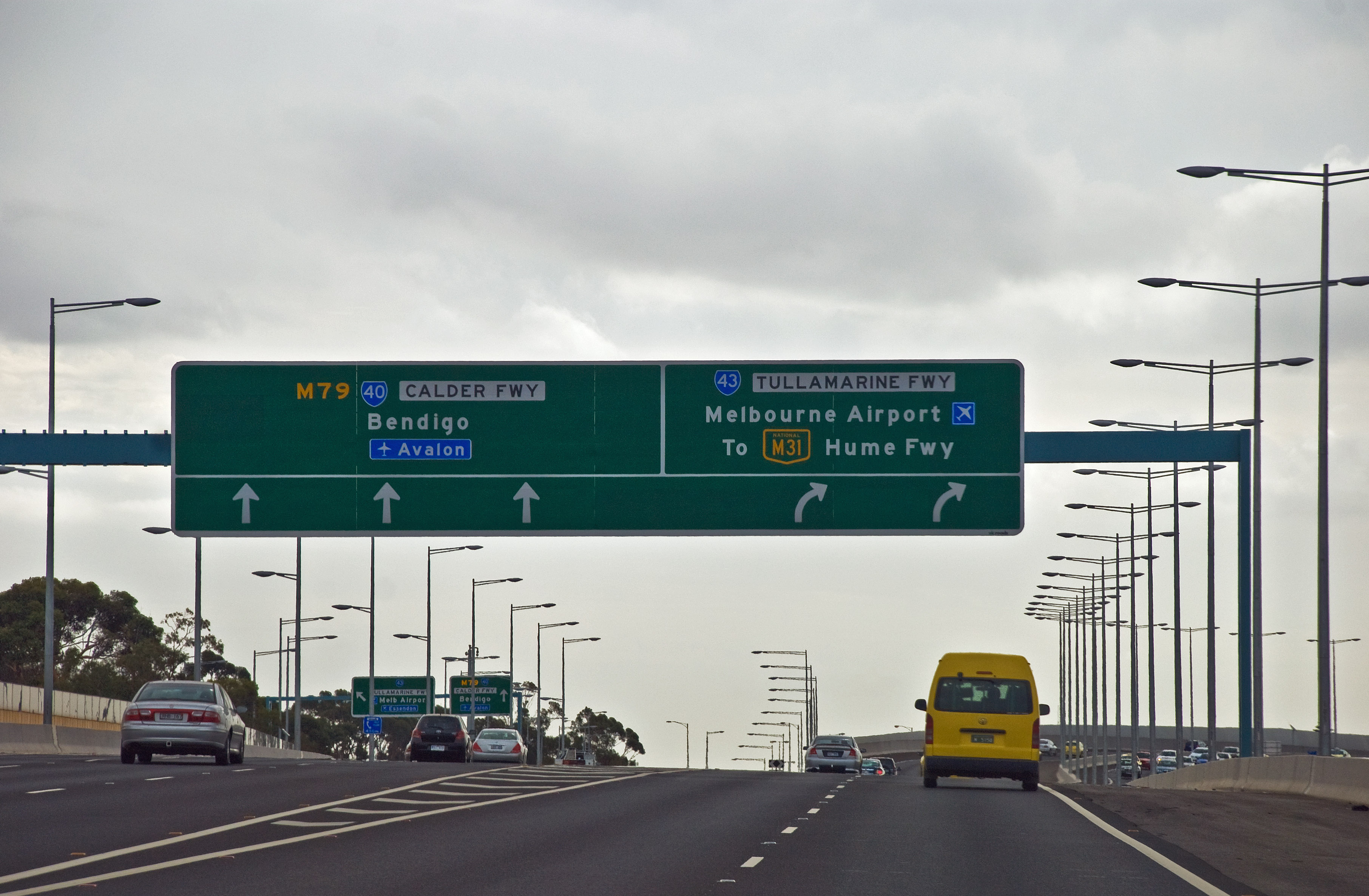 Picture of a sign along the Tullamarine Freeway, at the Calder Freeway turn-off.